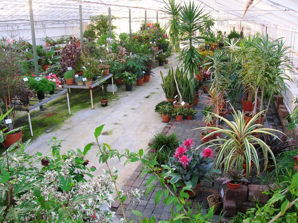 Collection of potting plants at Hveragerði/Iceland